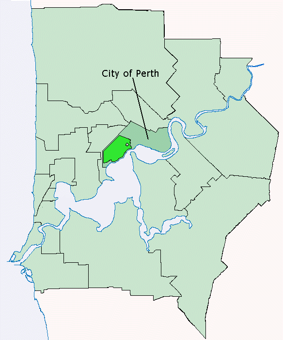 Location map of Kings Park, Perth, Western Australia